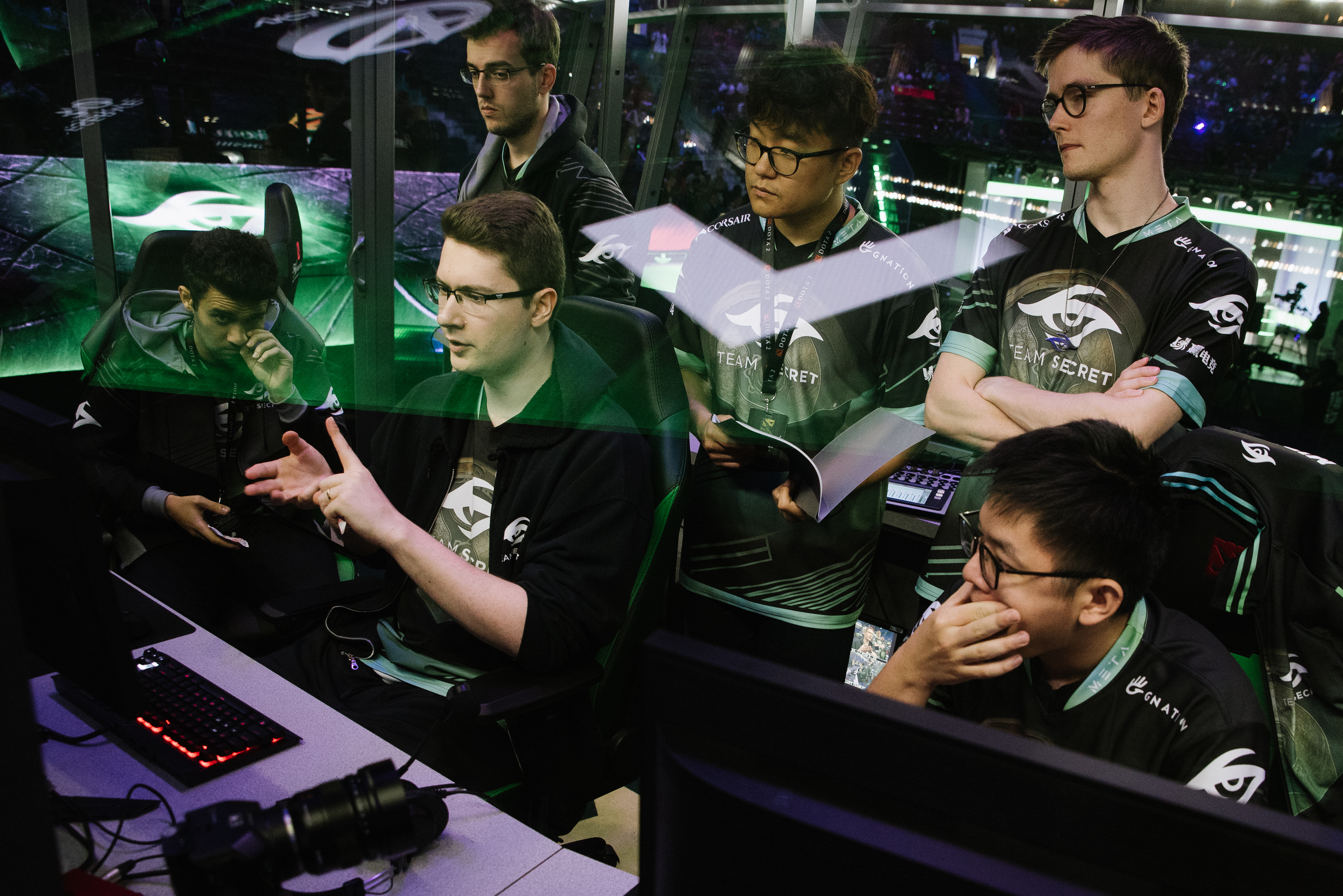 The International 2018